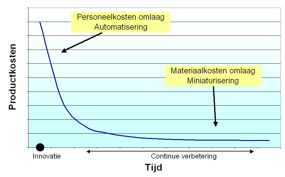 Chart of production costs declining over time as a result of automisation and miniaturisation.